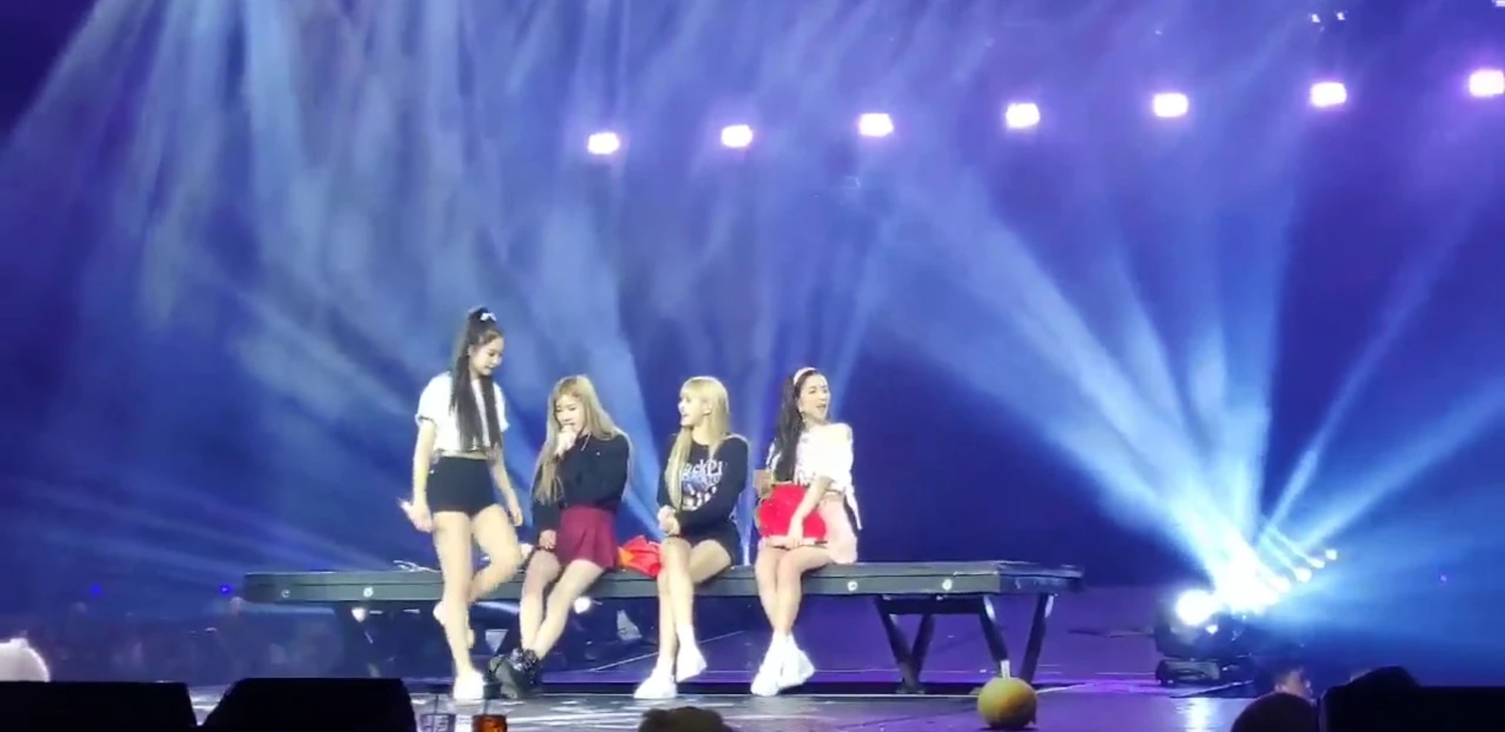 190202 Blackpink Philippines Concert.